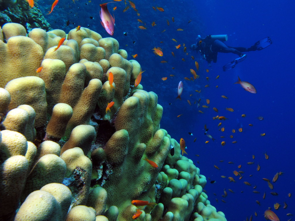 Coral, fish and one diver